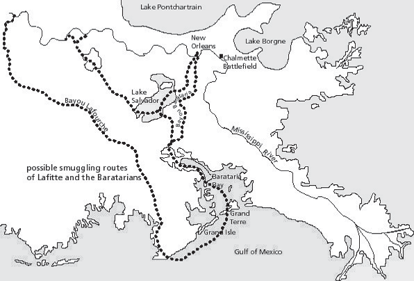 Possible smuggling routes used by privateer Jean Lafitte